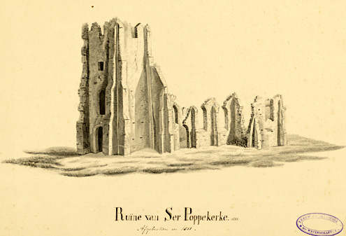 ruin church tower_Westkapelle-Poppekerke